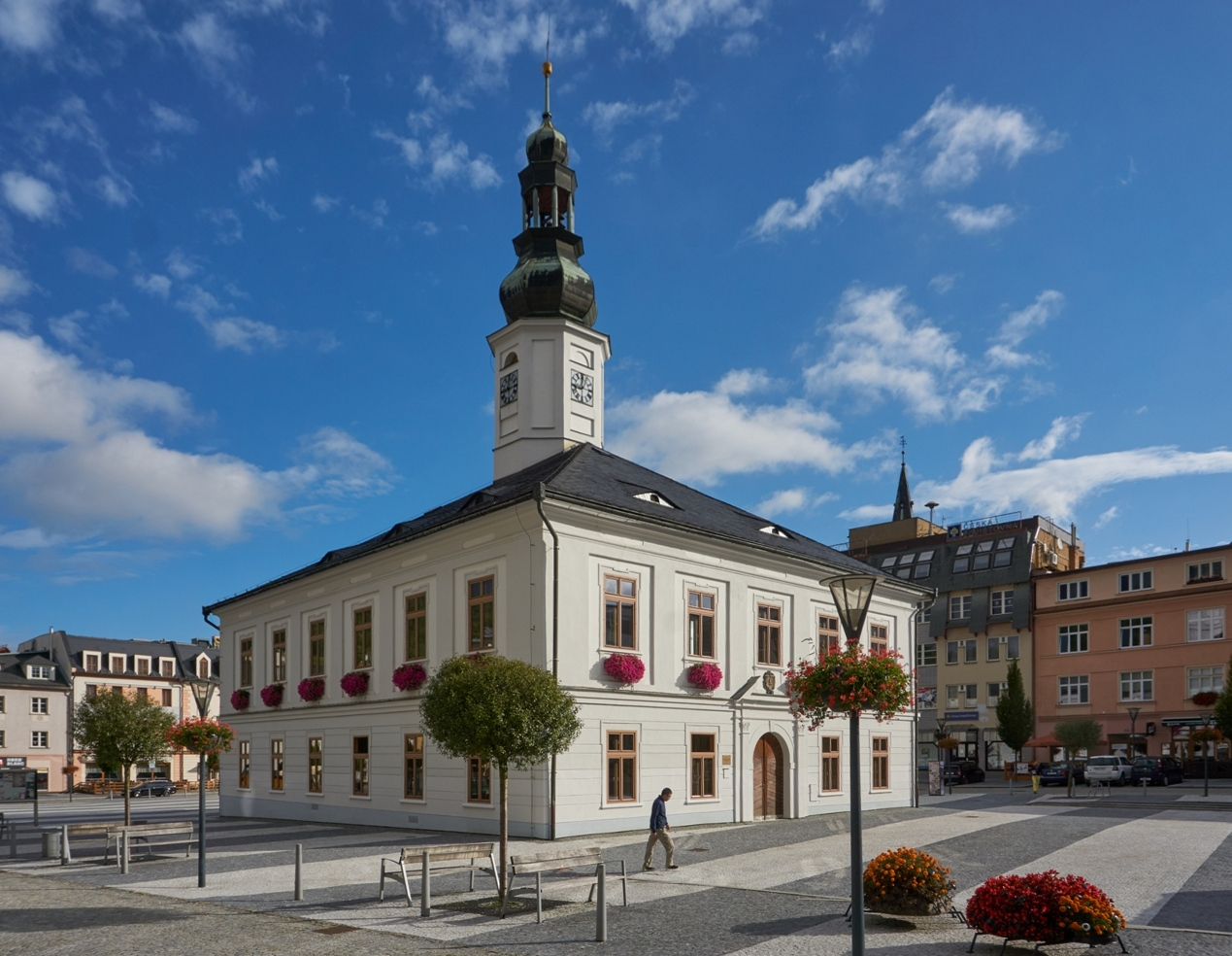 Masaryk square in Jeseník